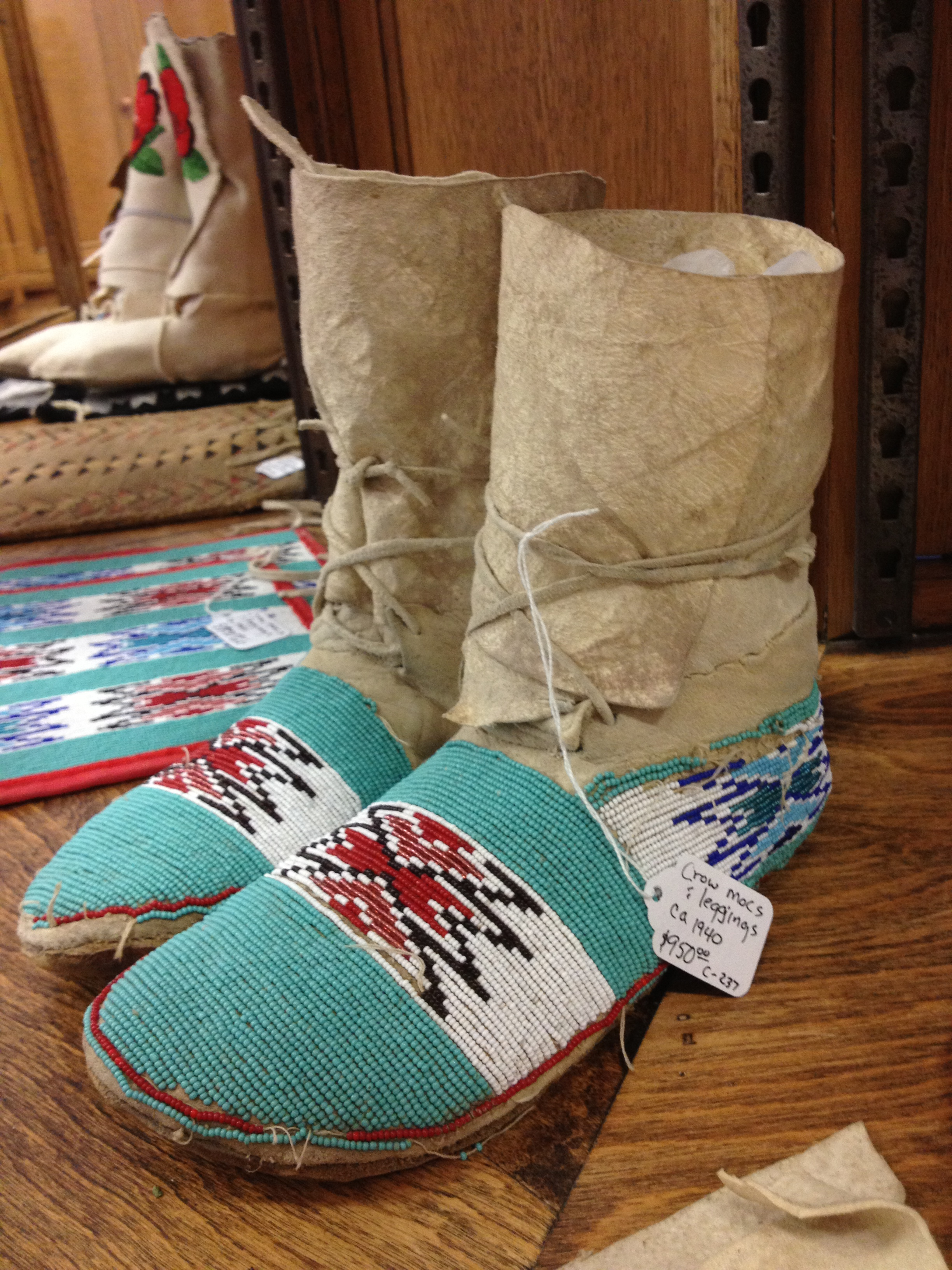 Crow beaded moccasins from around 1940. Ninepipes Museum of Early Montana, Charlo, MT. Photo of item in museum shop.